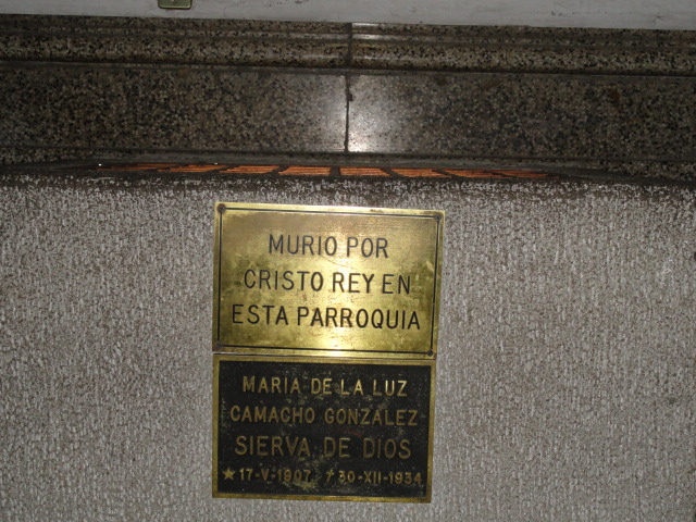 Urn with the body of the Servant of God, Maria de la Luz Cirenia Camacho Gonzalez, victim of Canabal.